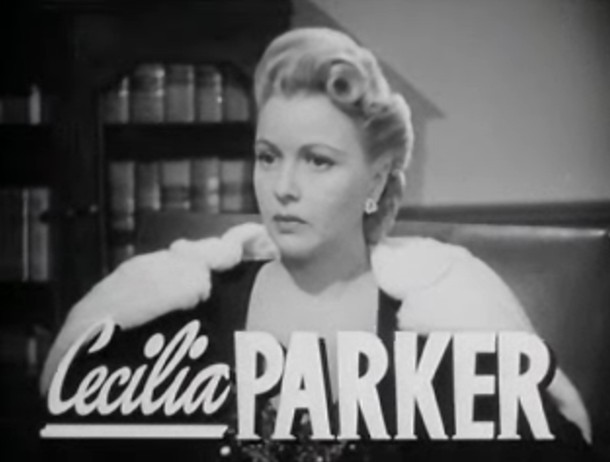 Cropped screenshot of Cecilia Parker from the trailer for the film Grand Central Murder.